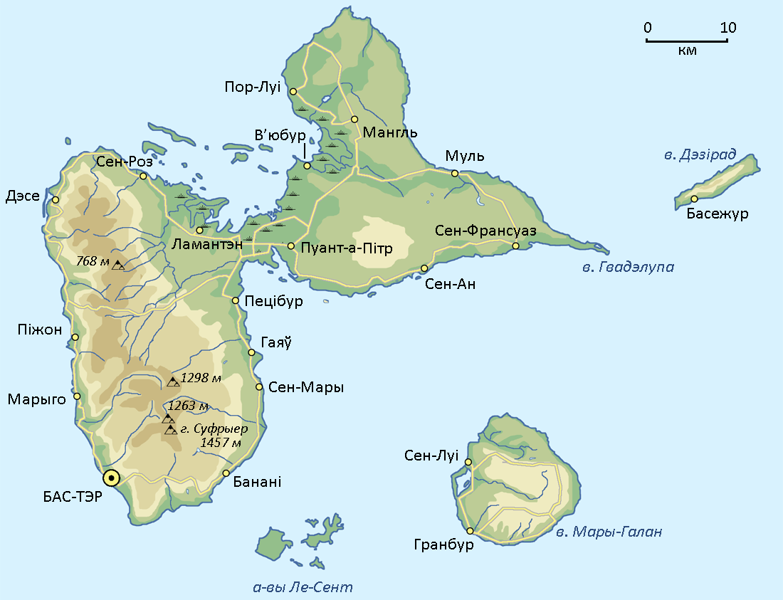 Map of Guadeloupe in Belarusian